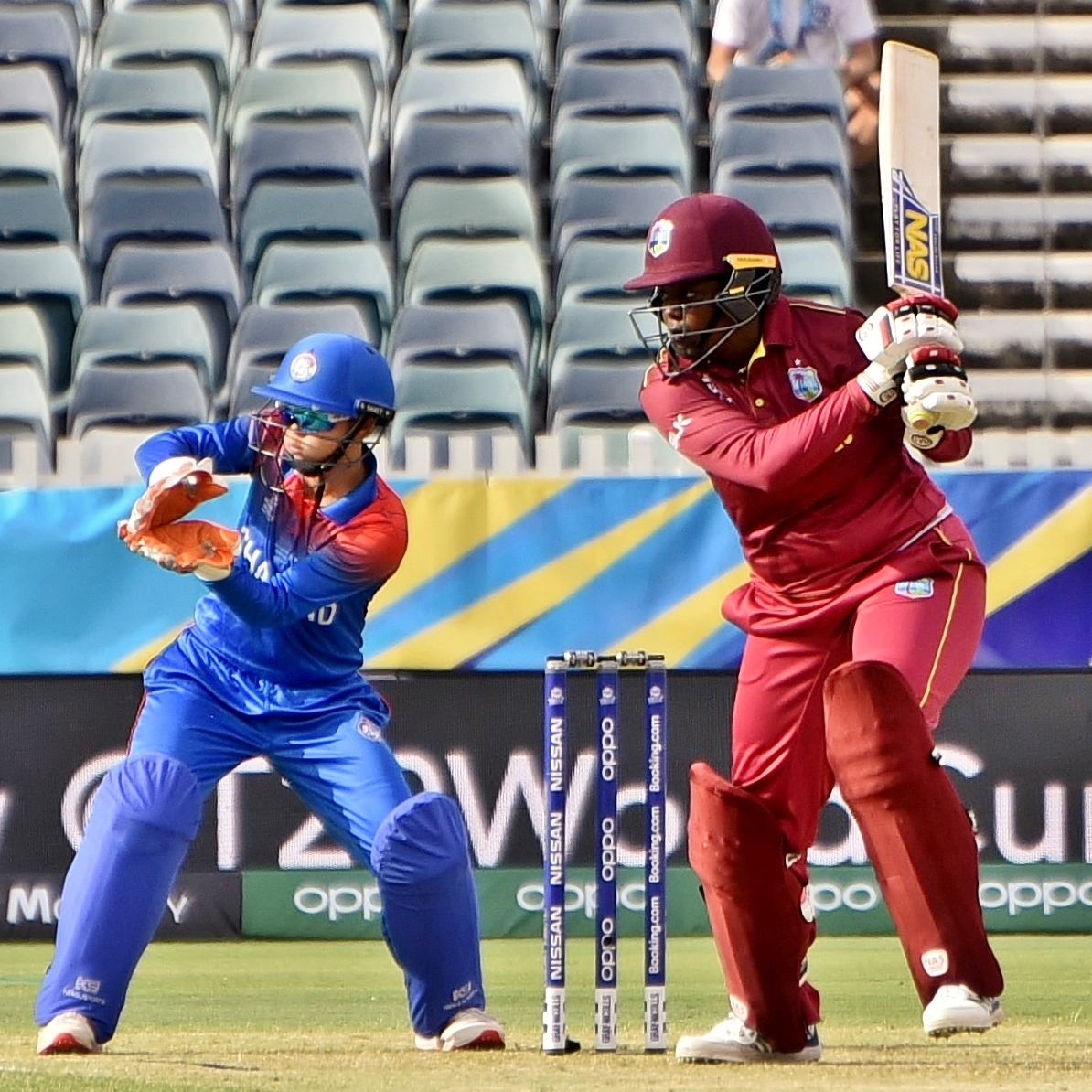 Lee-Ann Kirby batting for the West Indies against Thailand during their 2020 ICC Women's T20 World Cup match at the WACA Ground in Perth, Australia. The wicket-keeper is Nannapat Koncharoenkai.